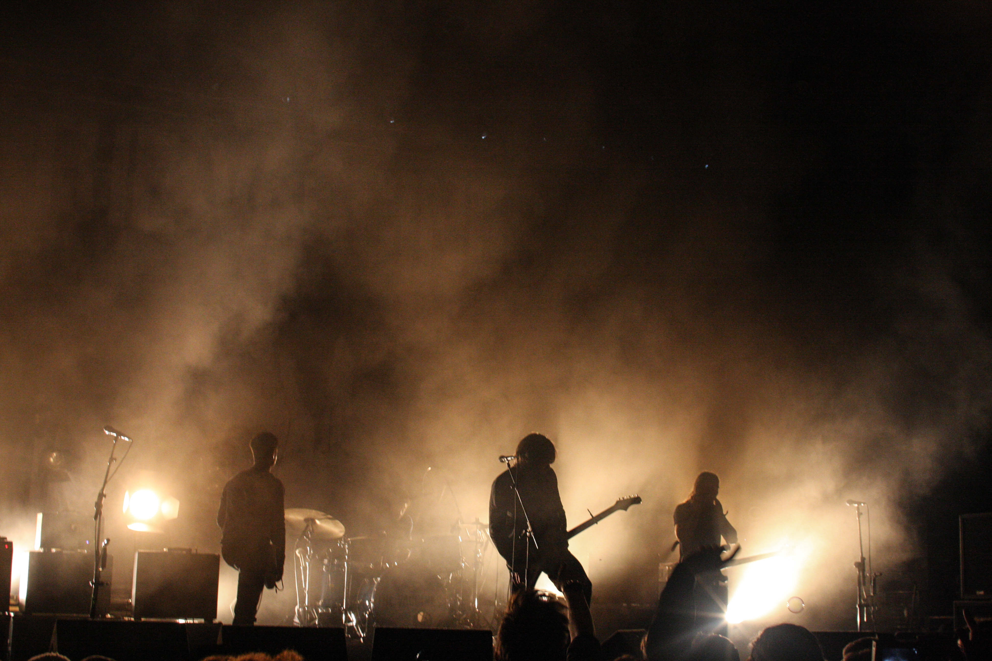 Festivalsommer This photo was created with the support of donations to Wikimedia Deutschland in the context of the CPB project "Festival Summer".